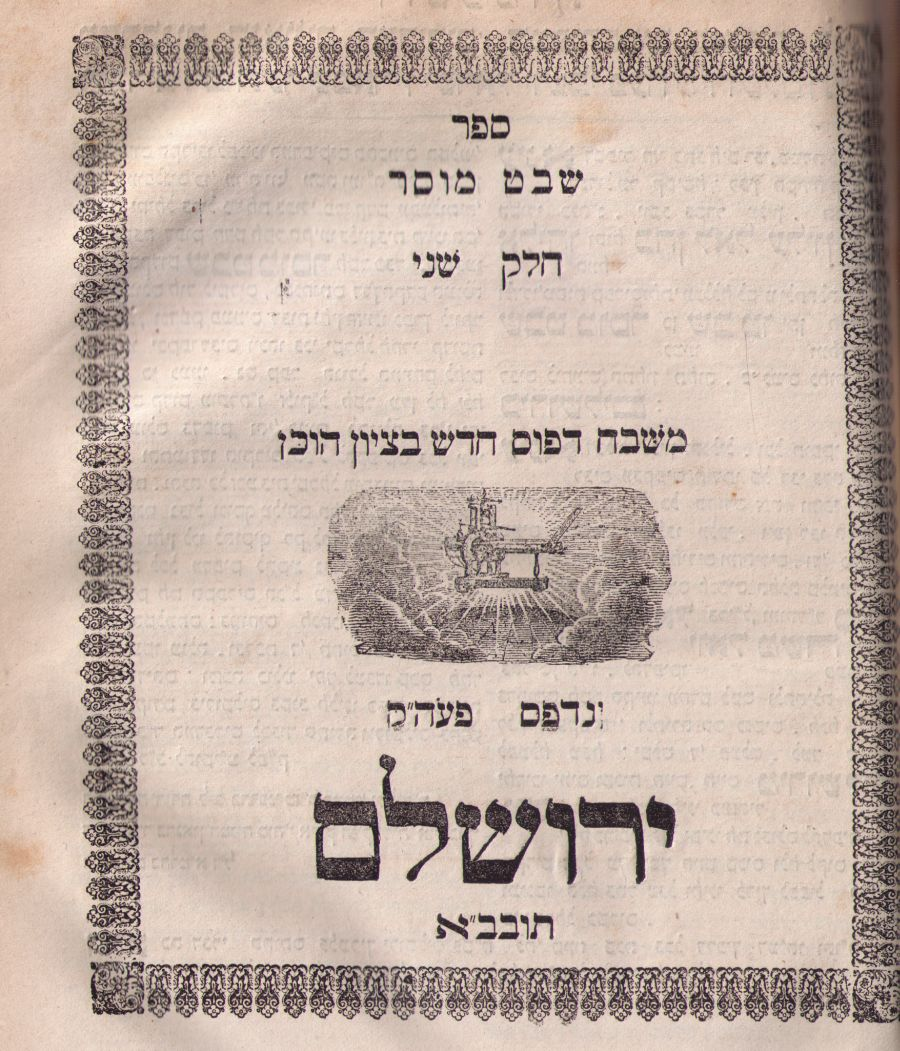 Shebet usar Book, Jerusalem 1863